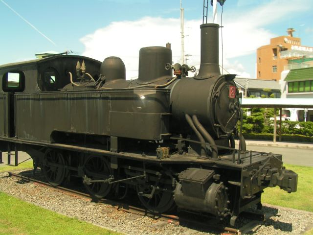 Type 2 Locomotive of Nansatsu Railway, preserved at Kayoda Bus Center, Minamisatsuma.